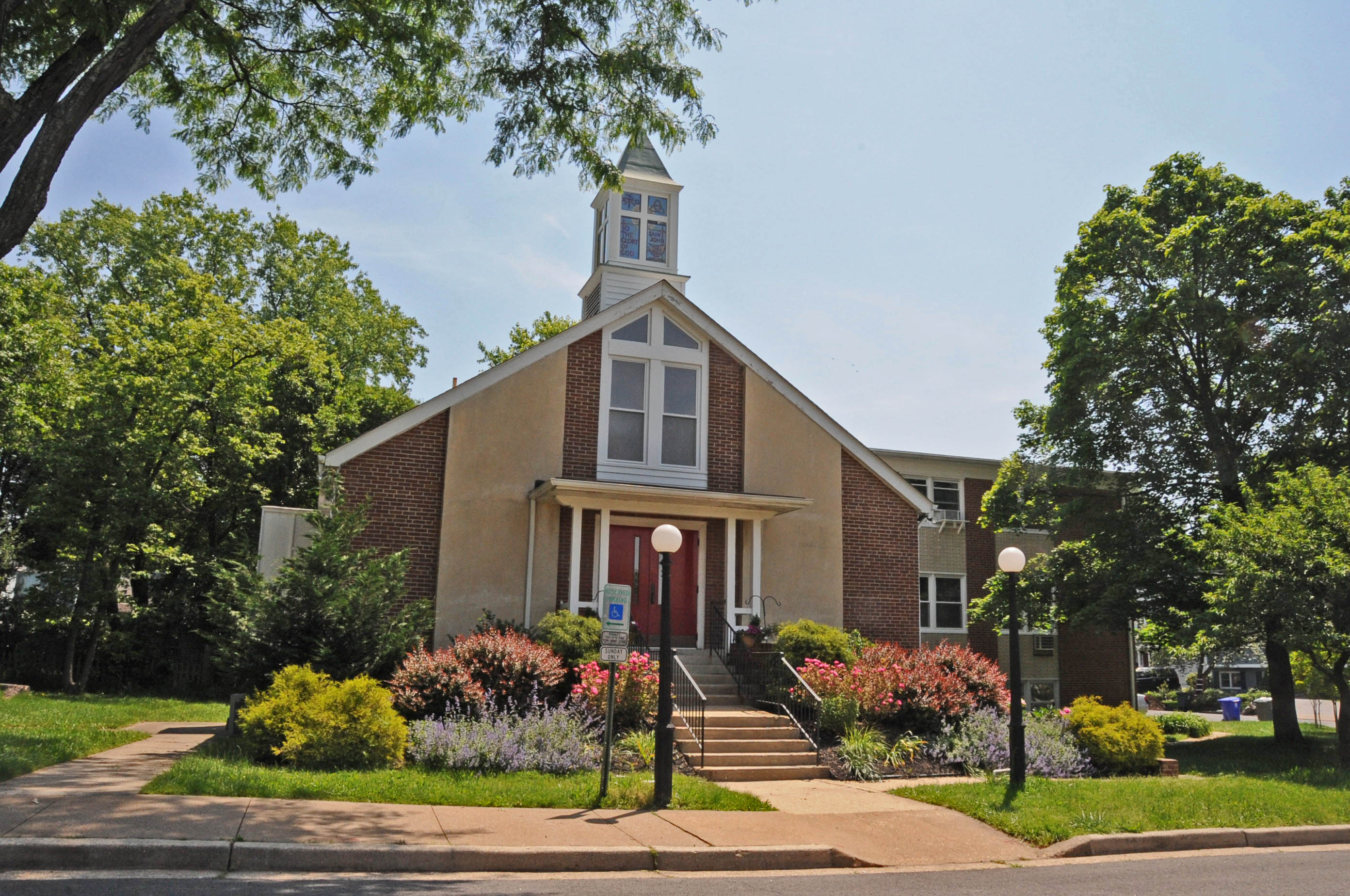 DISTRICT IS LOCATED IN SOUTH ARLINGTON. BEGUN IN 1887 AND CONTINUED TO DEVELOP IN THE 20TH CENTURY WITH VARYING STYLES. THIS PICTURE IS OF ST. JOHN’S EPISCOPAL CHURCH BUILT IN 1956 IS A NOTABLE CONTRIBUTING STRUCTURE LOCATED AT 415 S. LEXINGTON AVENUE